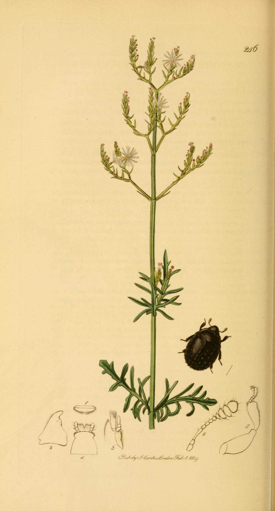 An illustration from British Entomology by John Curtis. Nosodendron fasciculare (Tufted Nosodendron.The plant is Centranthus calcitrapae (Valeriana calcitrapa, Portuguese Valerian)